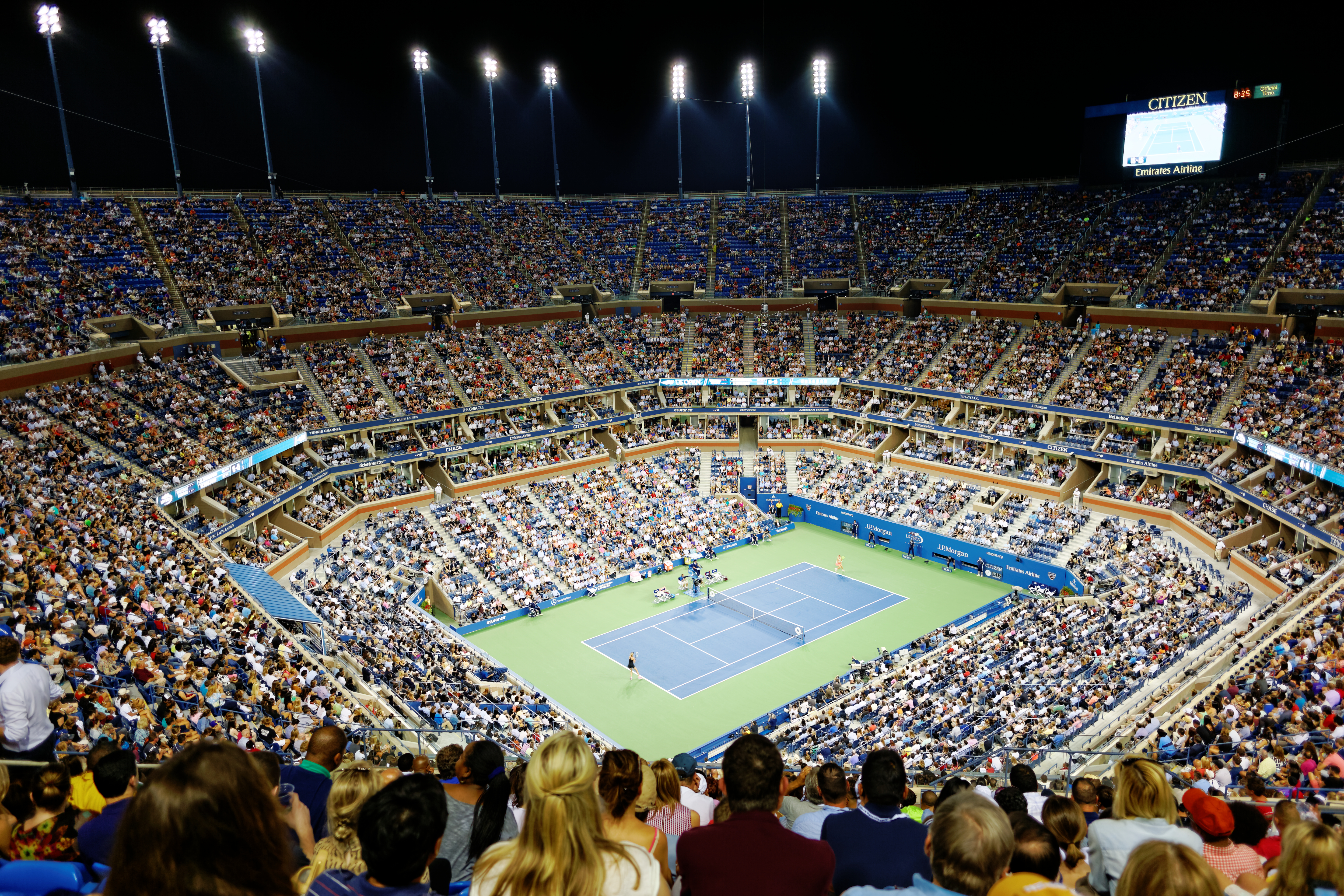 View over the Arthur Ashe Stadium on the 2014 US Open.